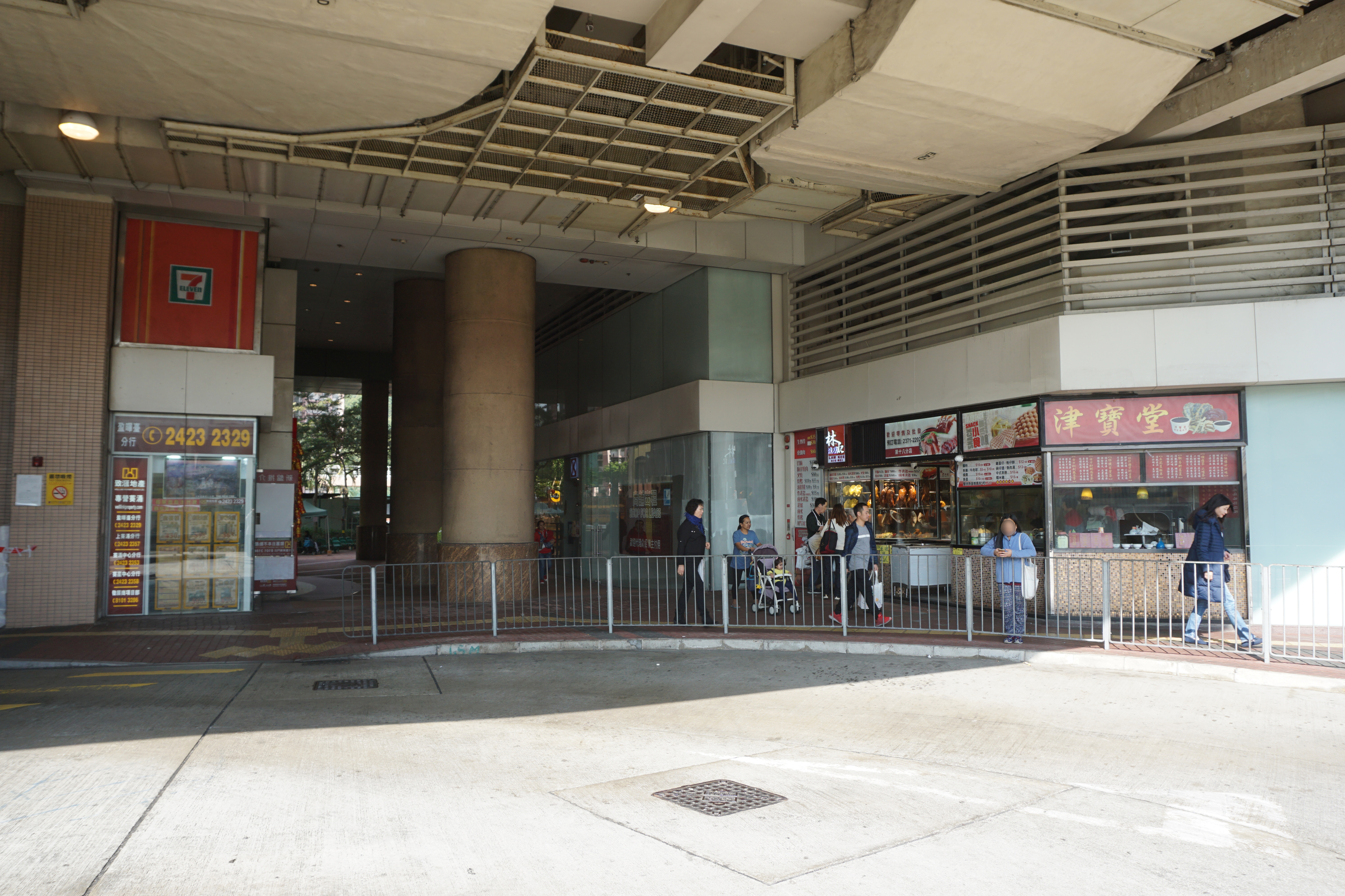 Nob Hill Square in Mei Foo, Hong Kong.